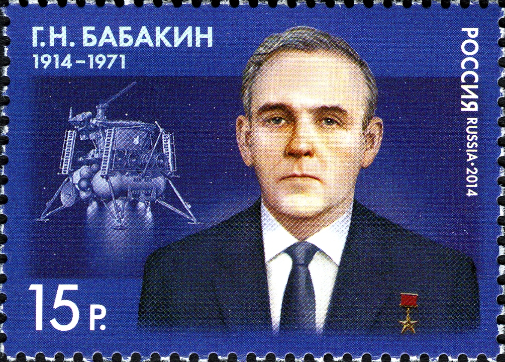 100th Anniversary of Birth of G. Babakhin (1914-1971)